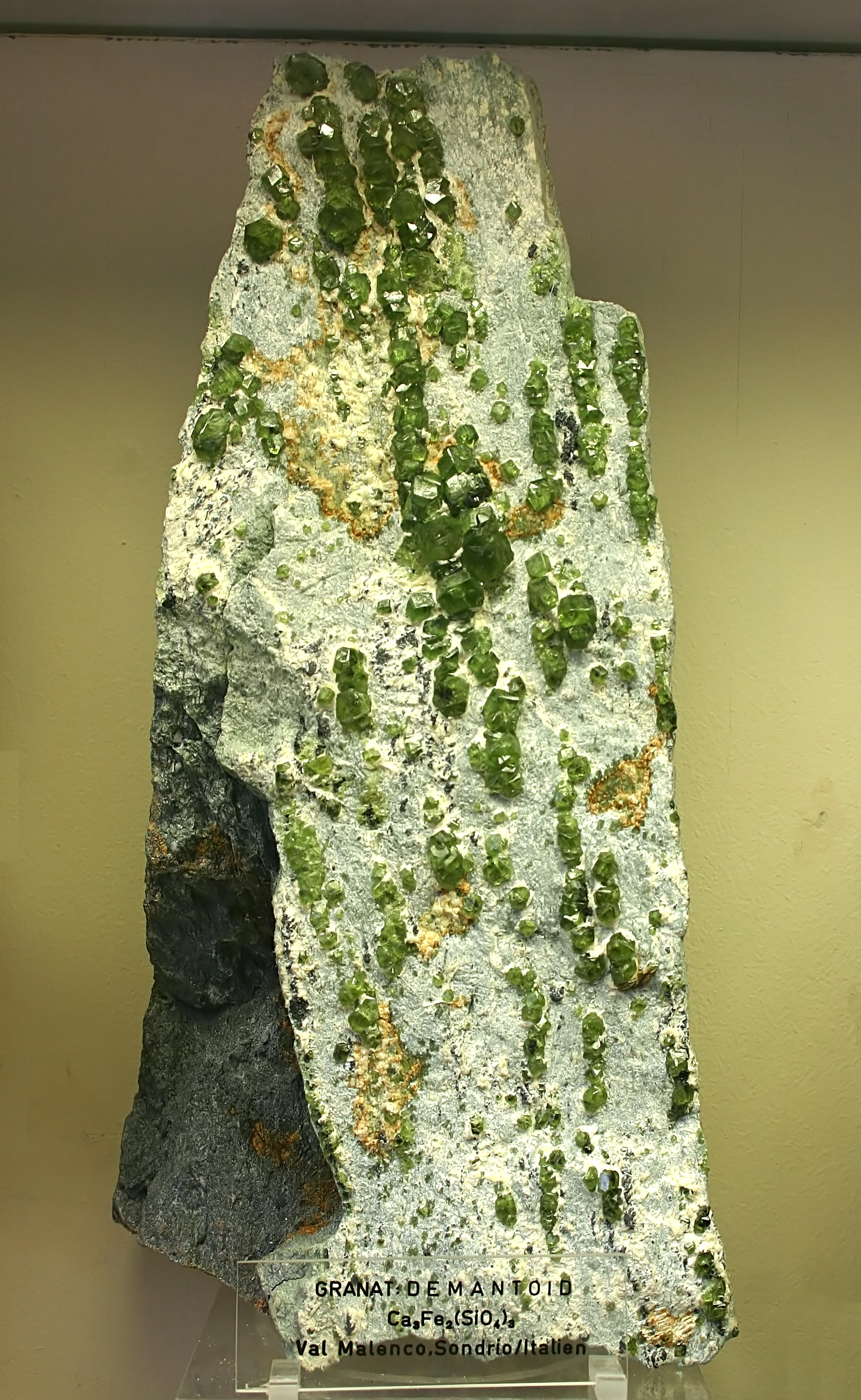 Demantoid, variety of Andradite - Locality: Val Malenco, Sondrio, Italy - Exhibited in the Mineralogical Museum, Bonn, Germany